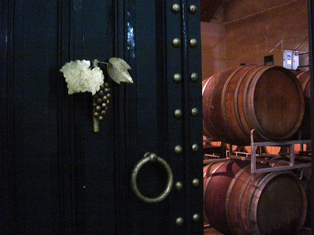 Georgian wine and spirits factory in Telavi, Georgia